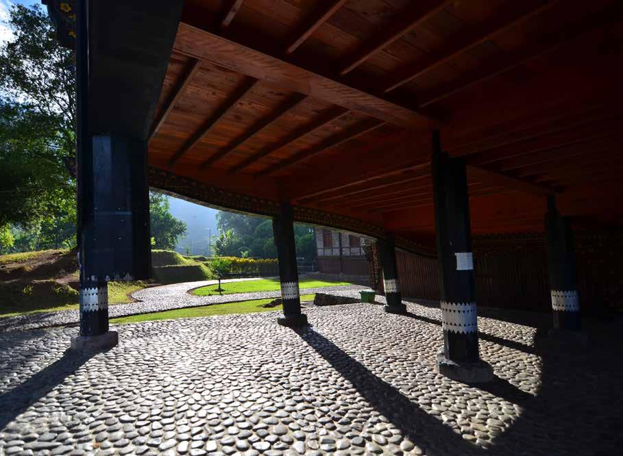 Pagaruyung Palace, West Sumatra